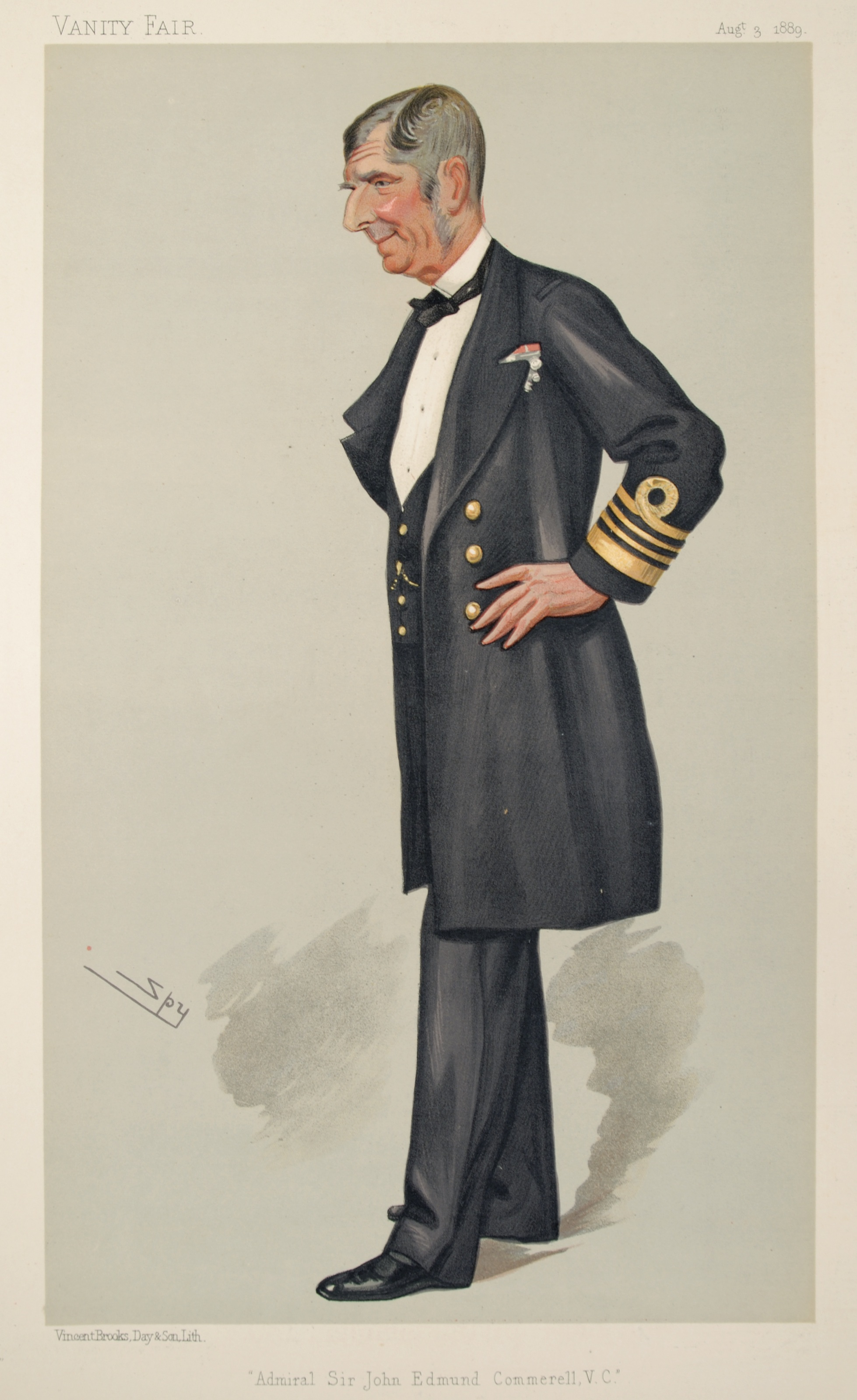 Men of the Day No. 434: Caricature of Admiral Sir John Edmund Commerell, G.C.B., V.C.. Caption read "Admiral Sir John Edmund Commerell, V.C."